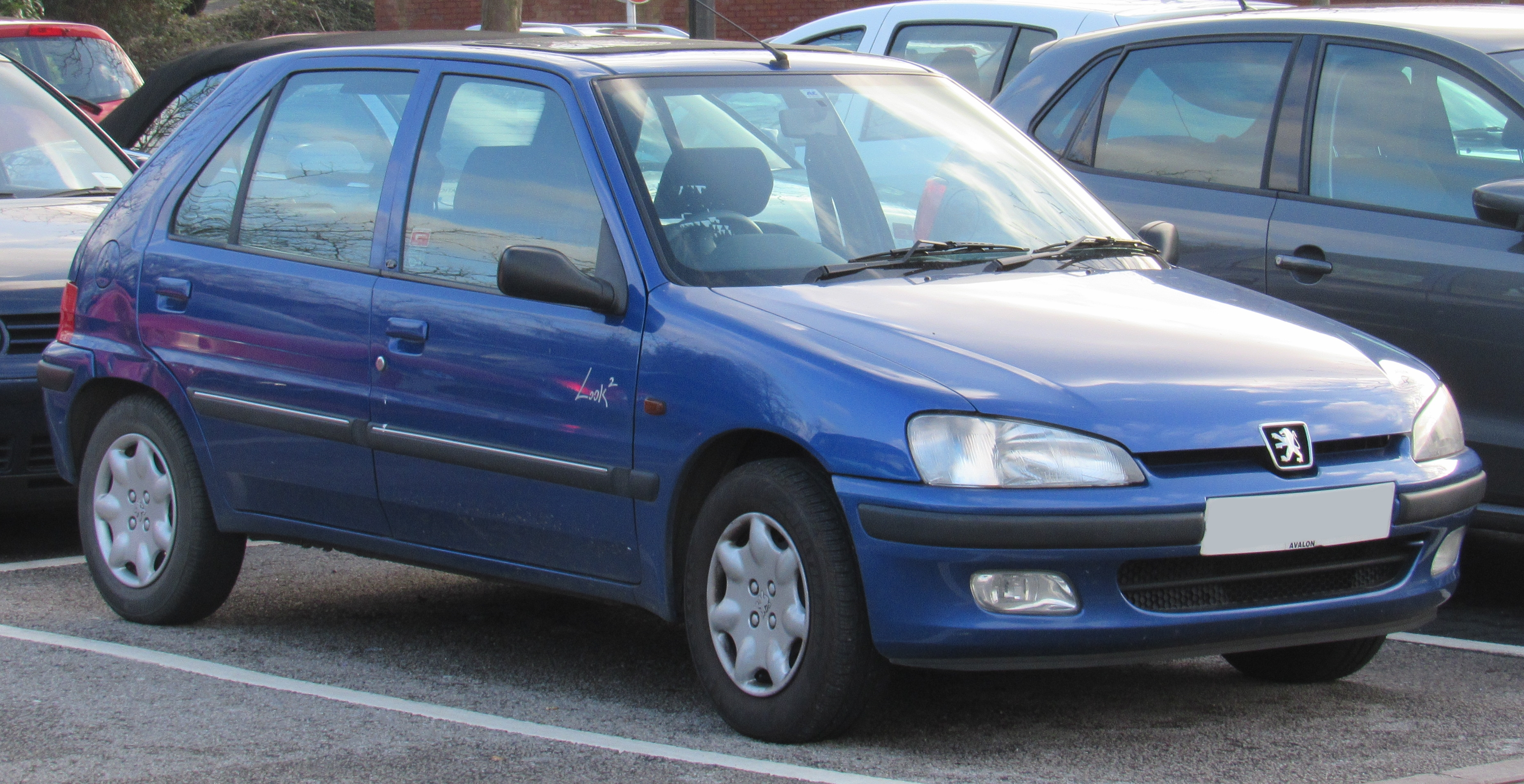 1998 Peugeot 106 Look2 1.1 Taken in Warwick